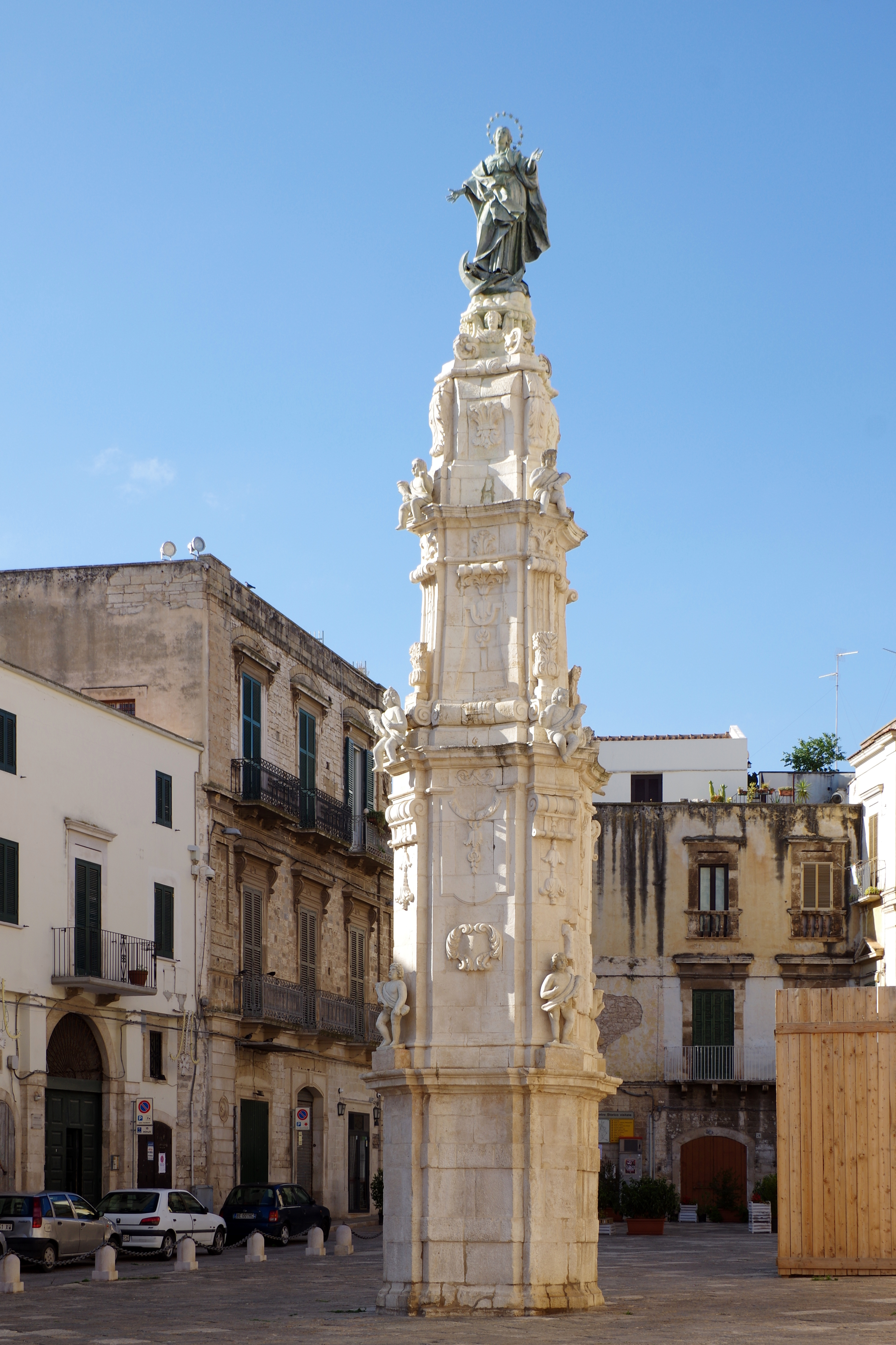 Italy, Bitonto, Column at the cathedral, guglia dell'Immacolata